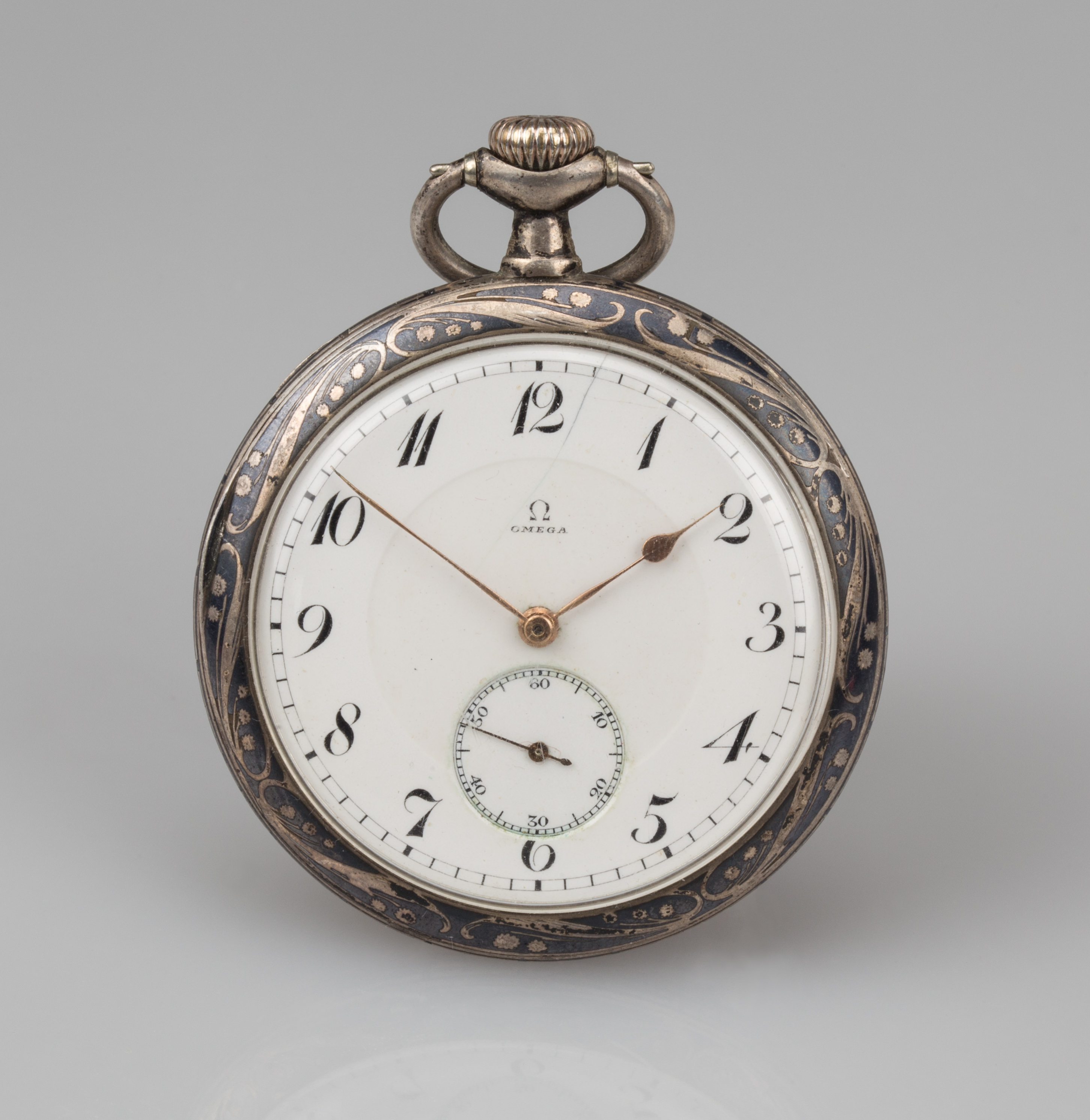 Pocket Watch Omega, Fin de Siecle, around 1900